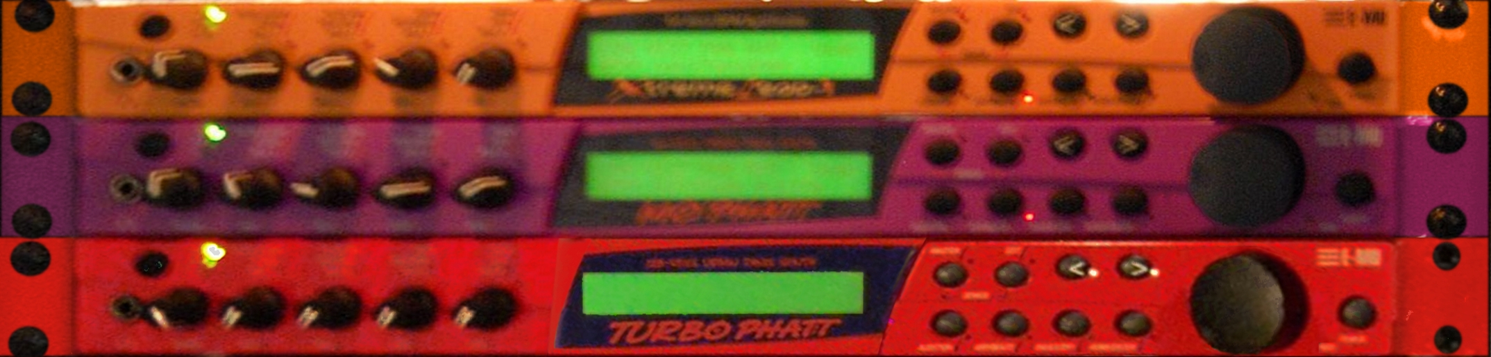 E-mu Extreme Lead-1 E-mu Mo'Phatt E-mu Turbo Phatt